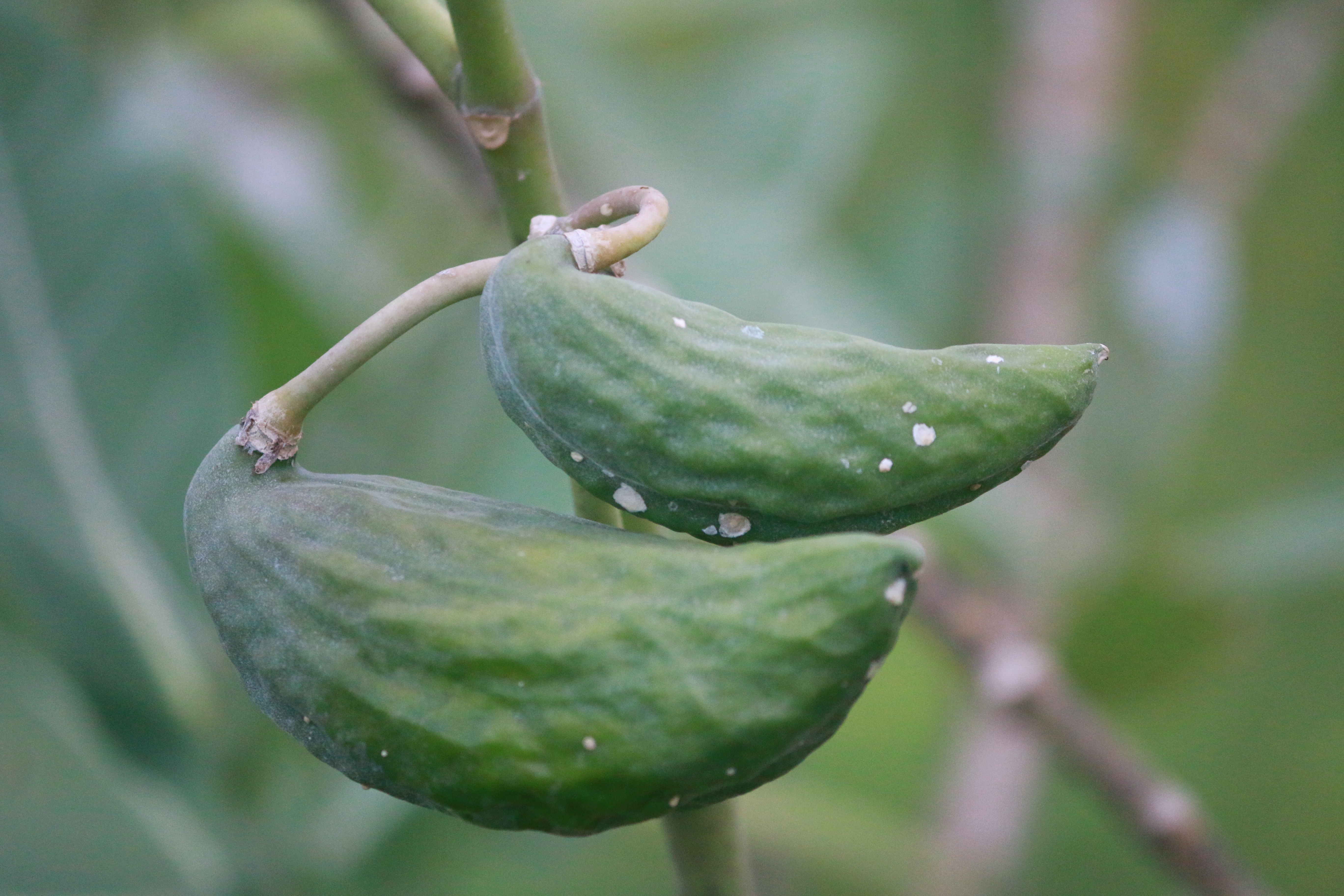 Calotropis gigantea seed